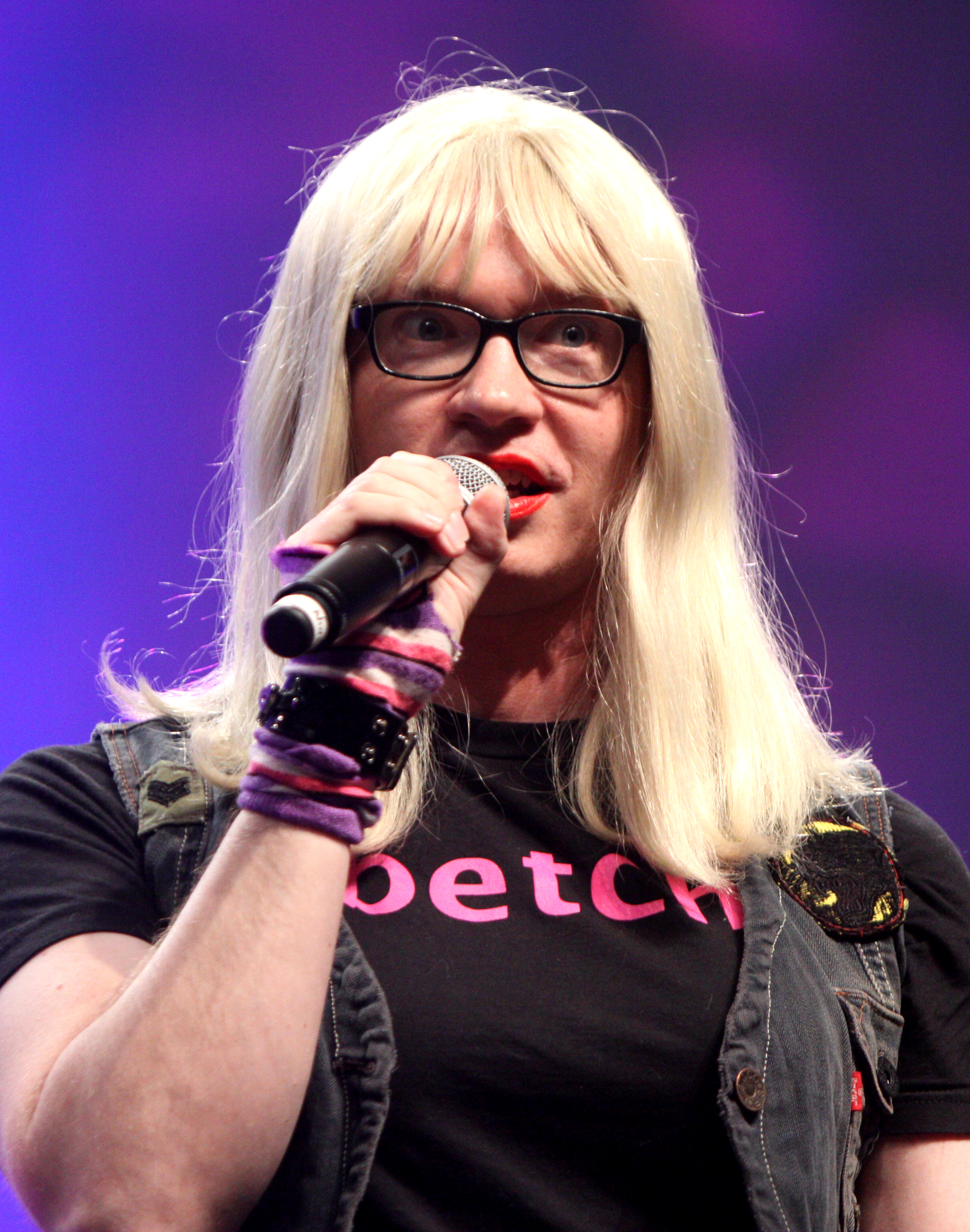 Liam Kyle Sullivan at the 2012 VidCon in Anaheim, California.